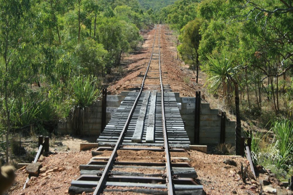 Etheridge railway - Typical small bridge, concrete abutments. Newcastle range (2008)